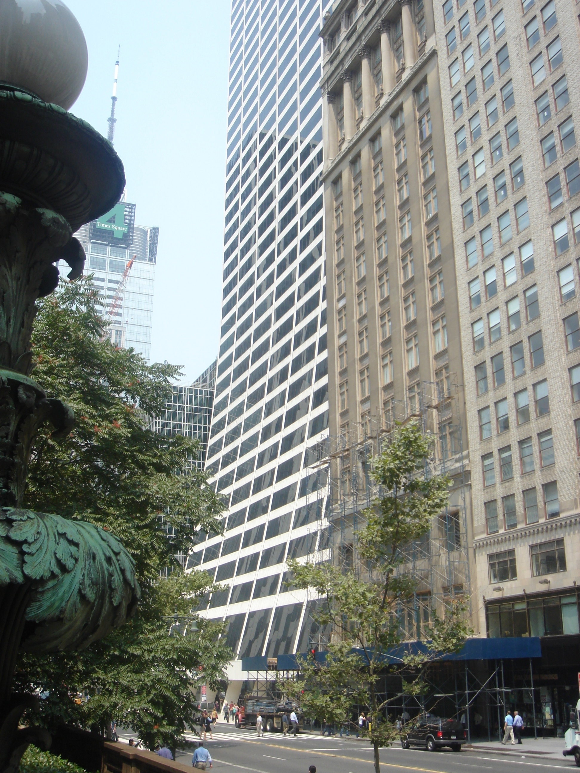 Looking northwest at W. R. Grace Building in New York City, as seen from the 42nd Street side of the New York Public Library. SUNY building in foreground.